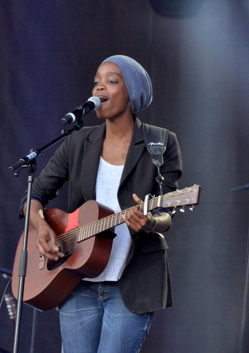 Irma during a charity concert for SOS Racisme on 14 July 2011.